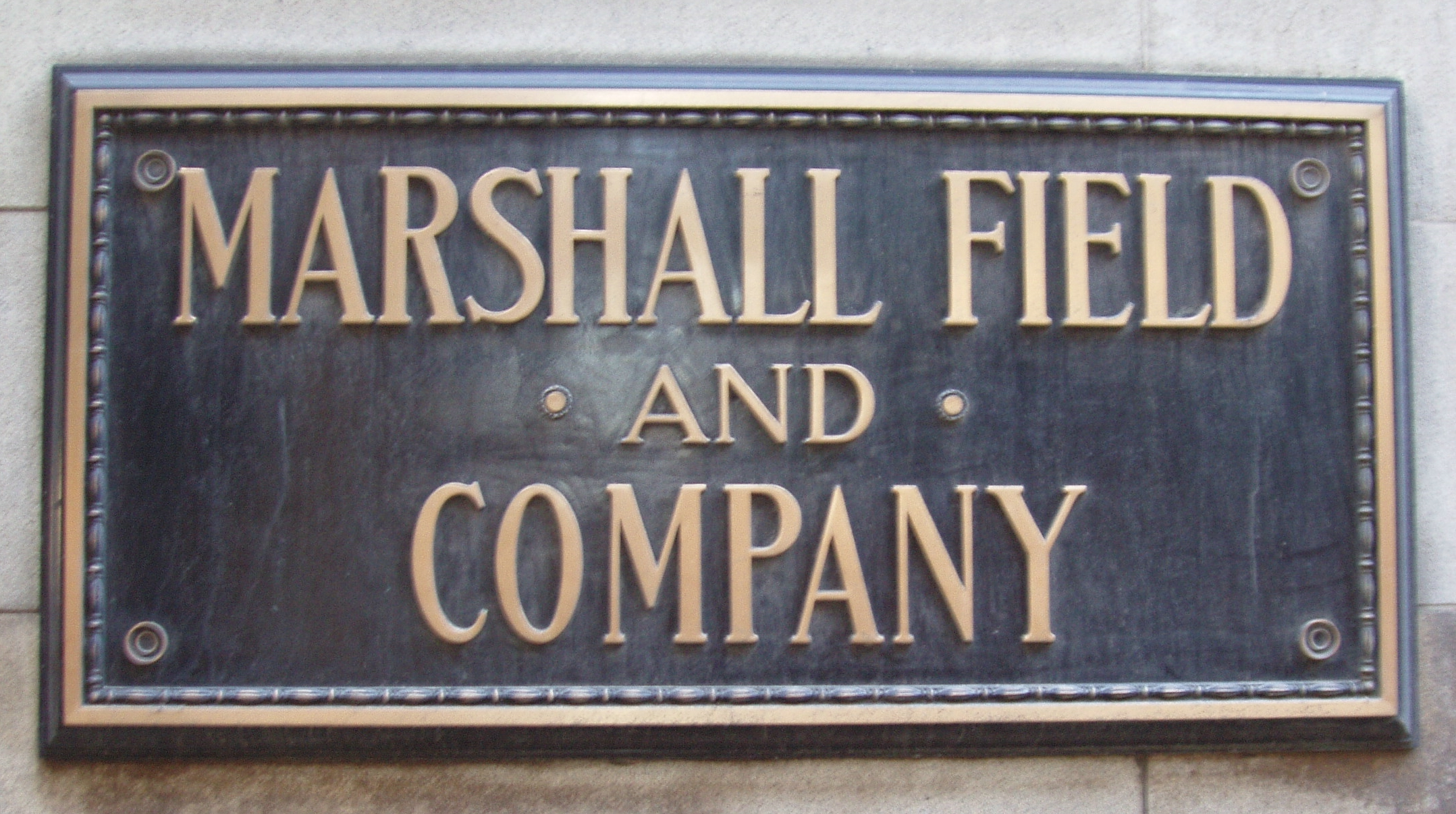 Marshall Field and Company, Chicago. Name plaque on State Street store (taken at the corner of Randolph and Wabash). Photographer: David K. Staub